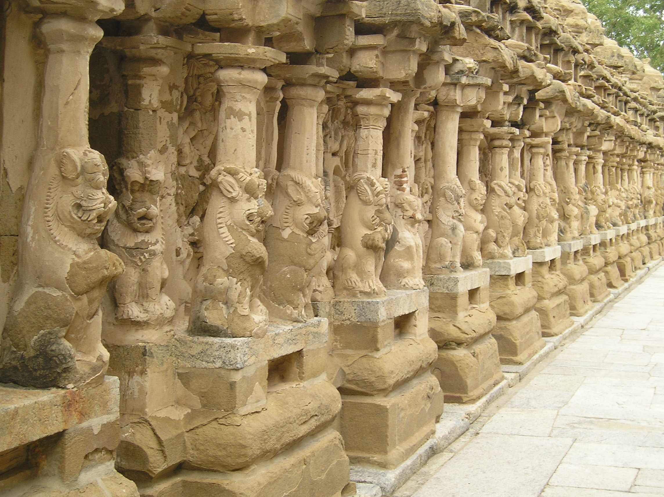 Kailsanathar temple